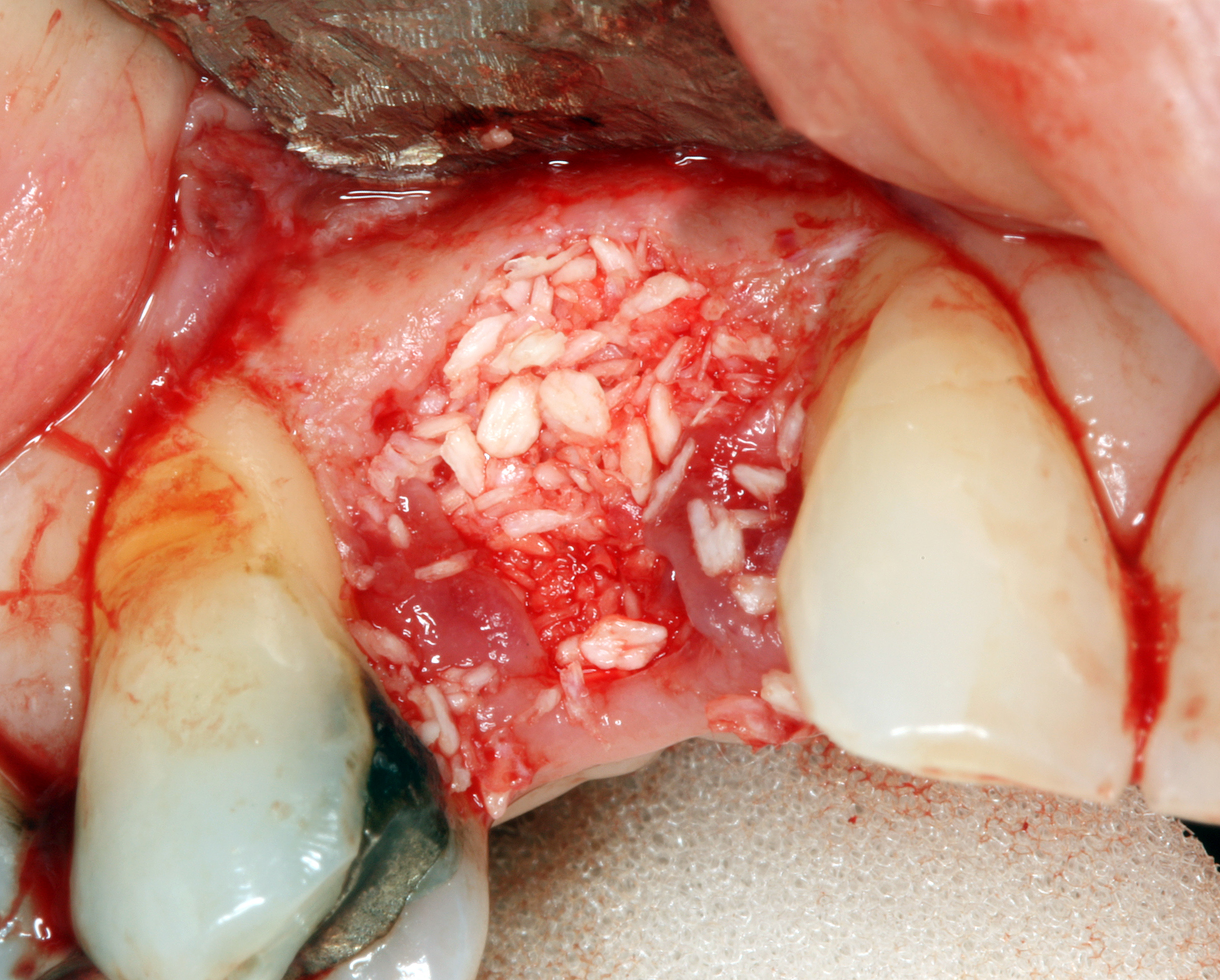 Cadaveric bone in particle form is used to rebuild the socket of a maxillary canine